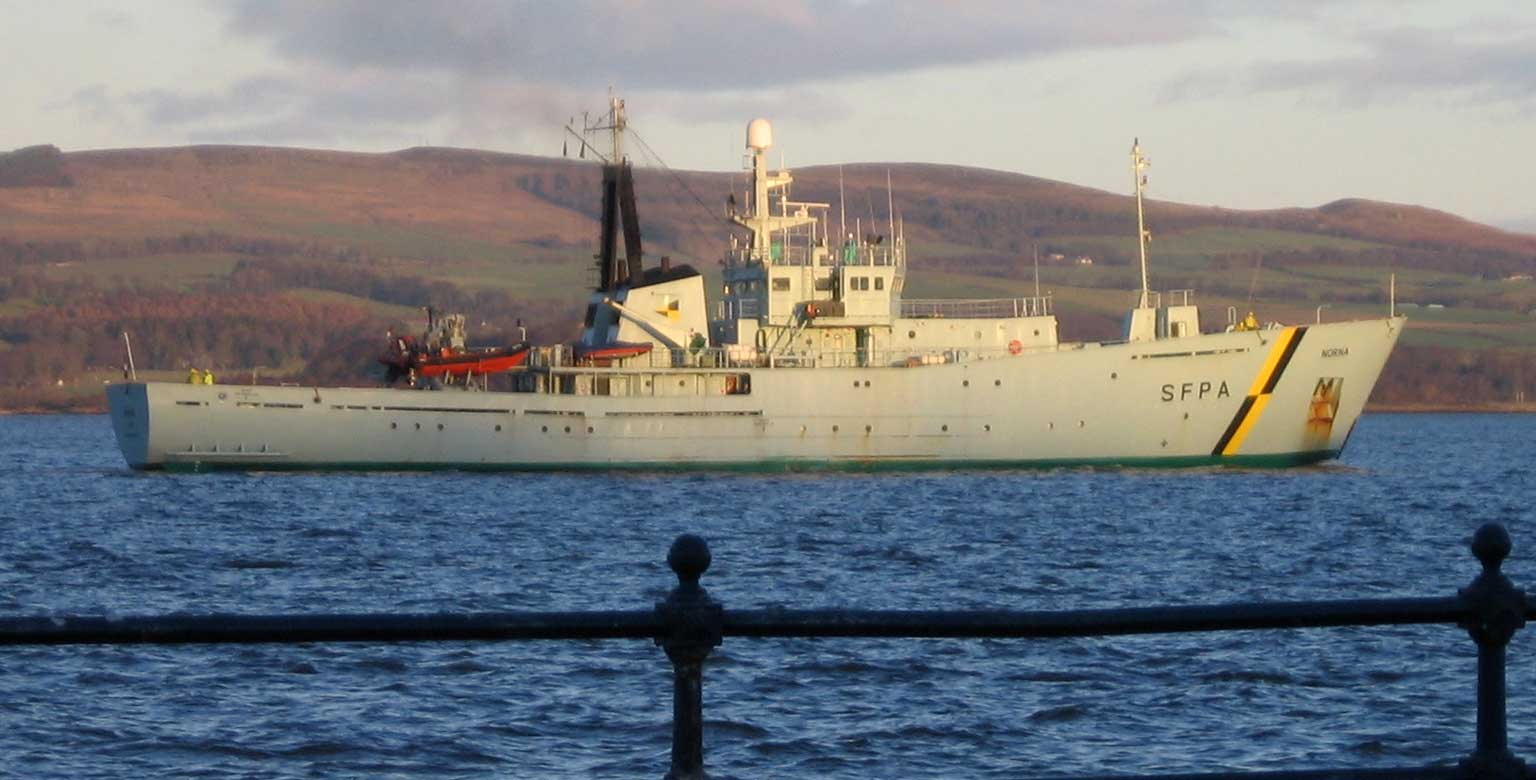 Scottish Fisheries Protection Agency Sulisker Class offshore patrol vessel FPV Norna on the Firth of Clyde in Scotland, seen from Creenock esplanade. IMO Number: 8608341 MMSI Number: 232316000 Callsign: GJMP Length: 60 m Beam: 12 m